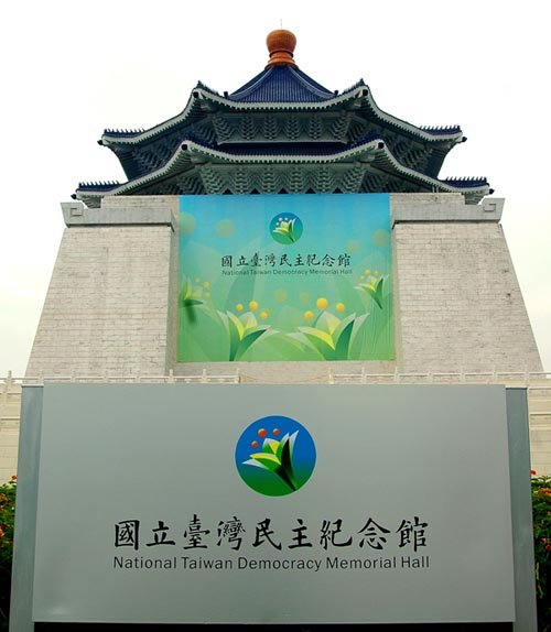 Side view of National Taiwan Democracy Memorial Hall (Chiang Kai-shek Memorial Hall) in Taipei, Taiwan as it appeared two days after the renaming ceremony.